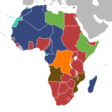 This is a map of Africa on the outbreak of the Second World War. Colonies and protectorates: Dark blue = French Red = British Orange = Belgian Green = Italy Brown = Portuguese Cyan blue = Spanish